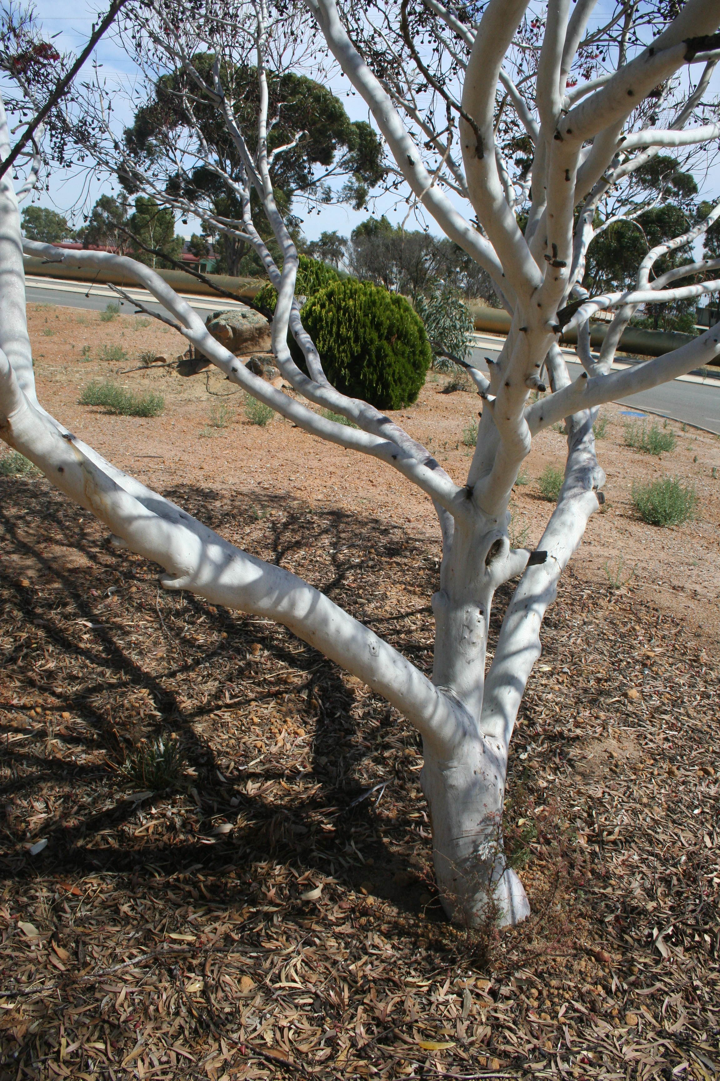 Eucalyptus erythronema var. marginata (trunk closeup)